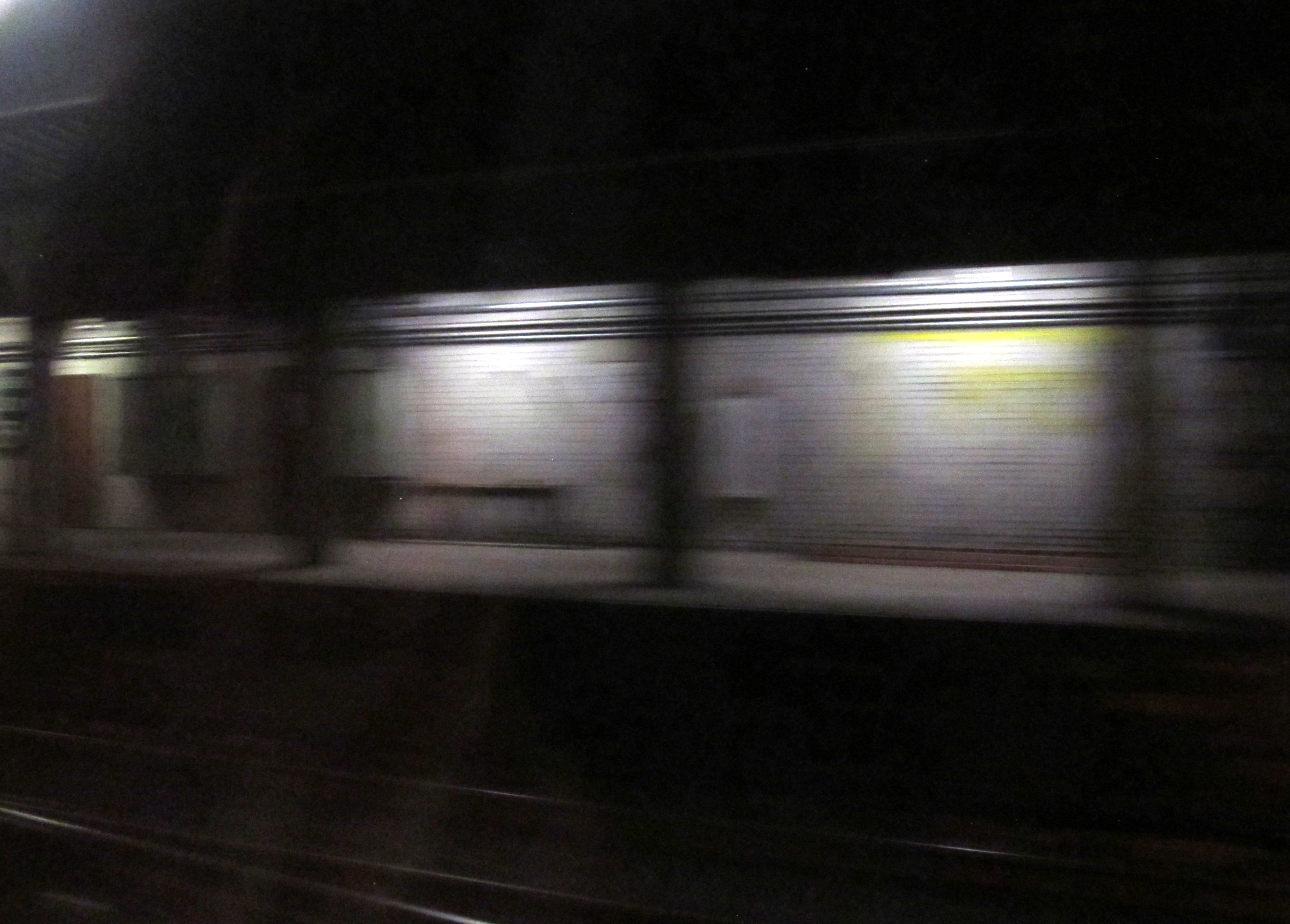 Northbound platform at 59th Street station seen from a passing train in December 2017